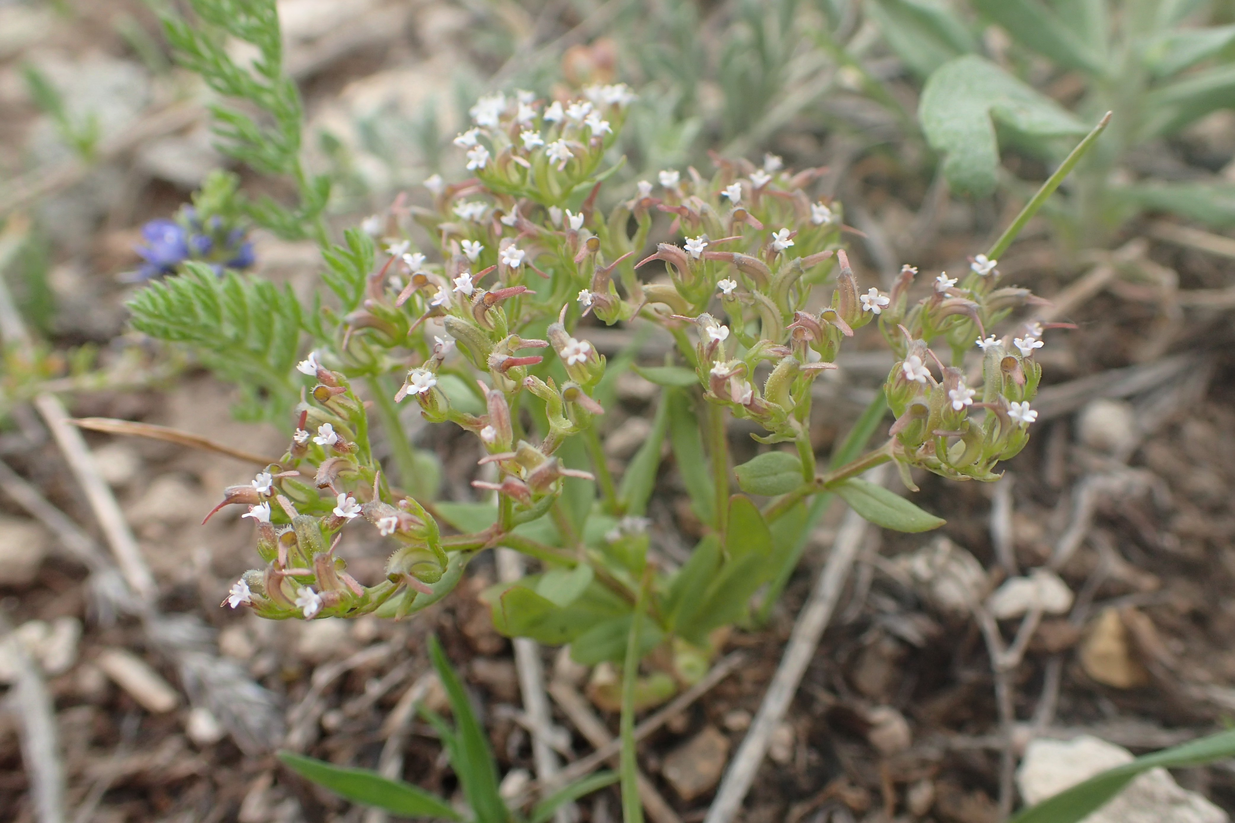 Valerianella szovitsiana in Voghjaberd (Armenia)